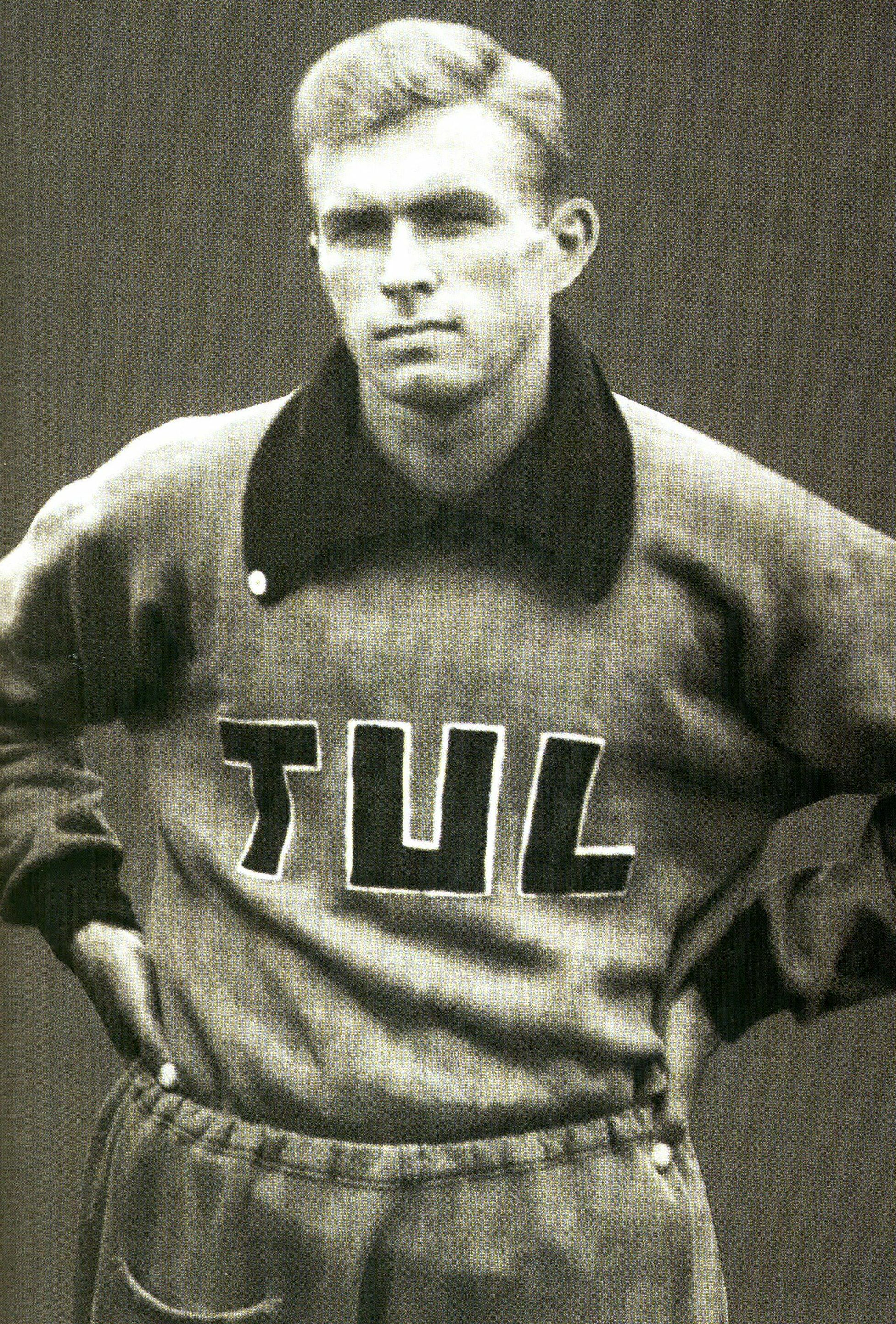 Tapio Rautavaara finnish singer, actor and athlete at the 1937 International Workers' Olympiads in Antwerp, Belgium.